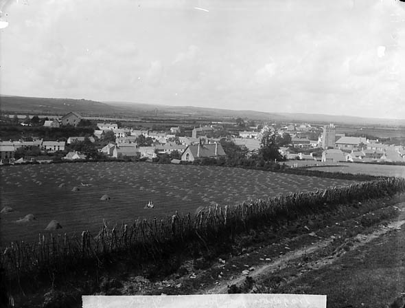 1 negative : glass, dry plate, b&w ; 16.5 x 21.5 cm.